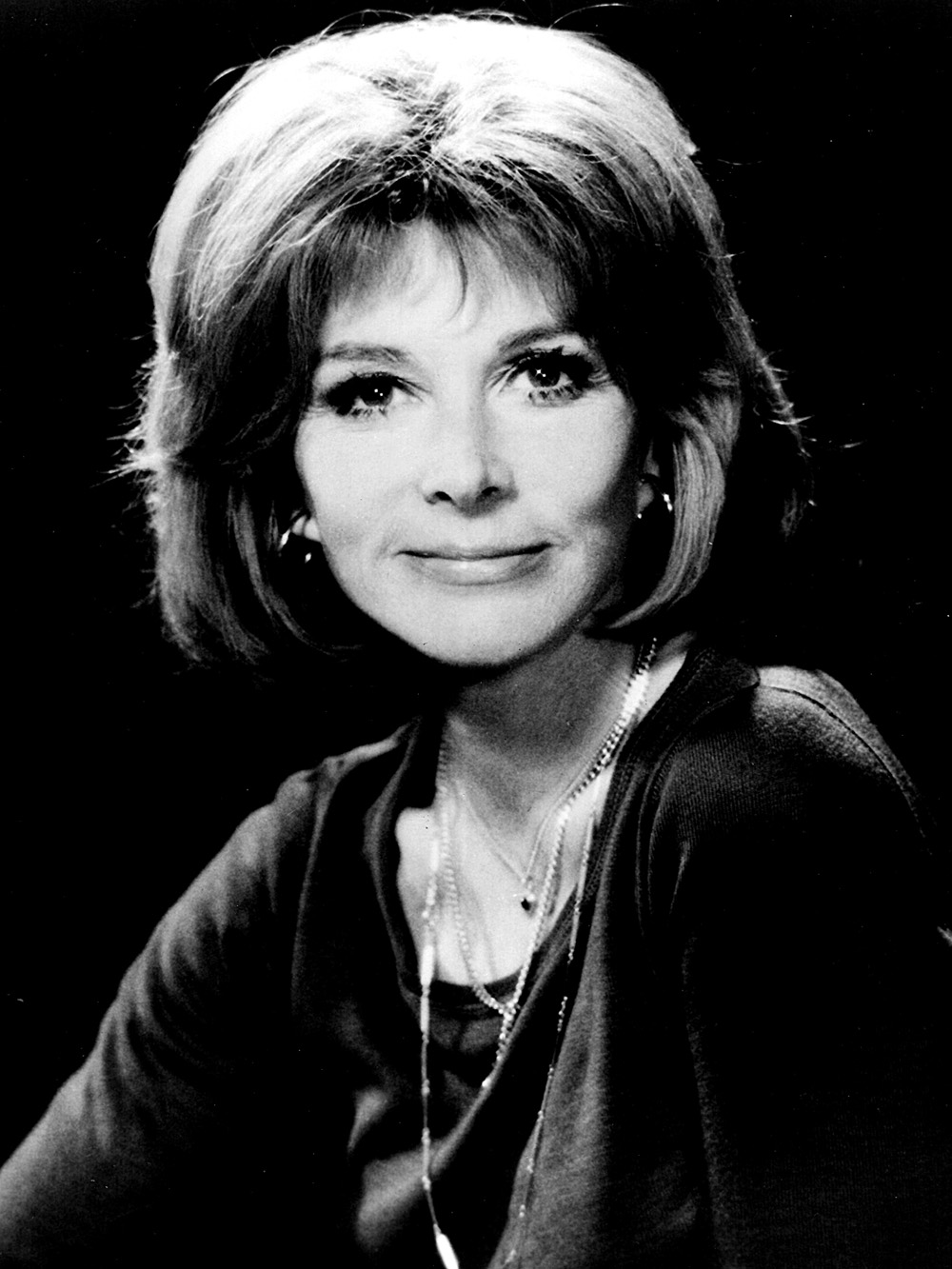 Publicity photo of Lee Grant